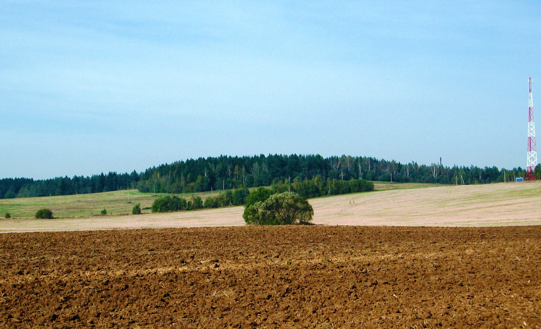 Mayak Mountain, Valožyn District, Belarus